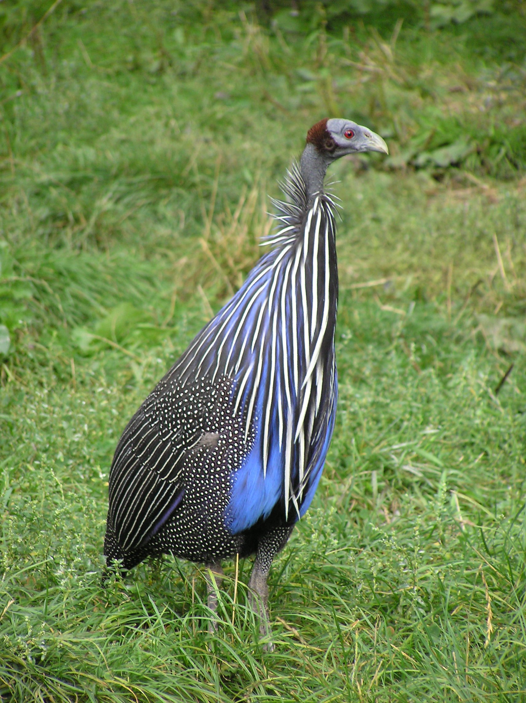 Acryllium vulturinum, photographed in Prague ZOO, 2006-09-28.